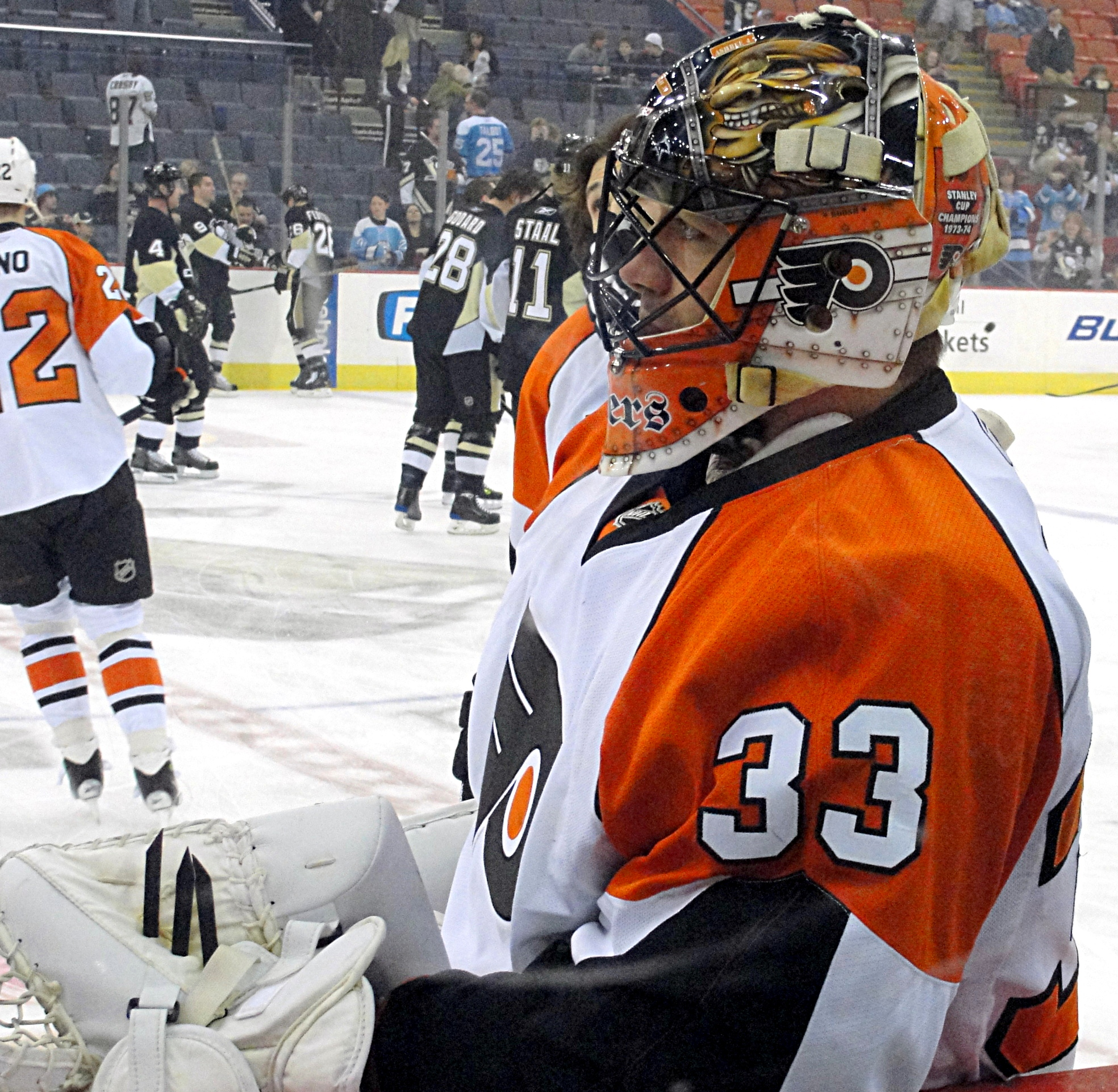 Philadelphia Flyers goaltender Brian Boucher warms up before a March 27, 2010 game against the Pittsburgh Penguins at Mellon Arena in Pittsburgh, PA.